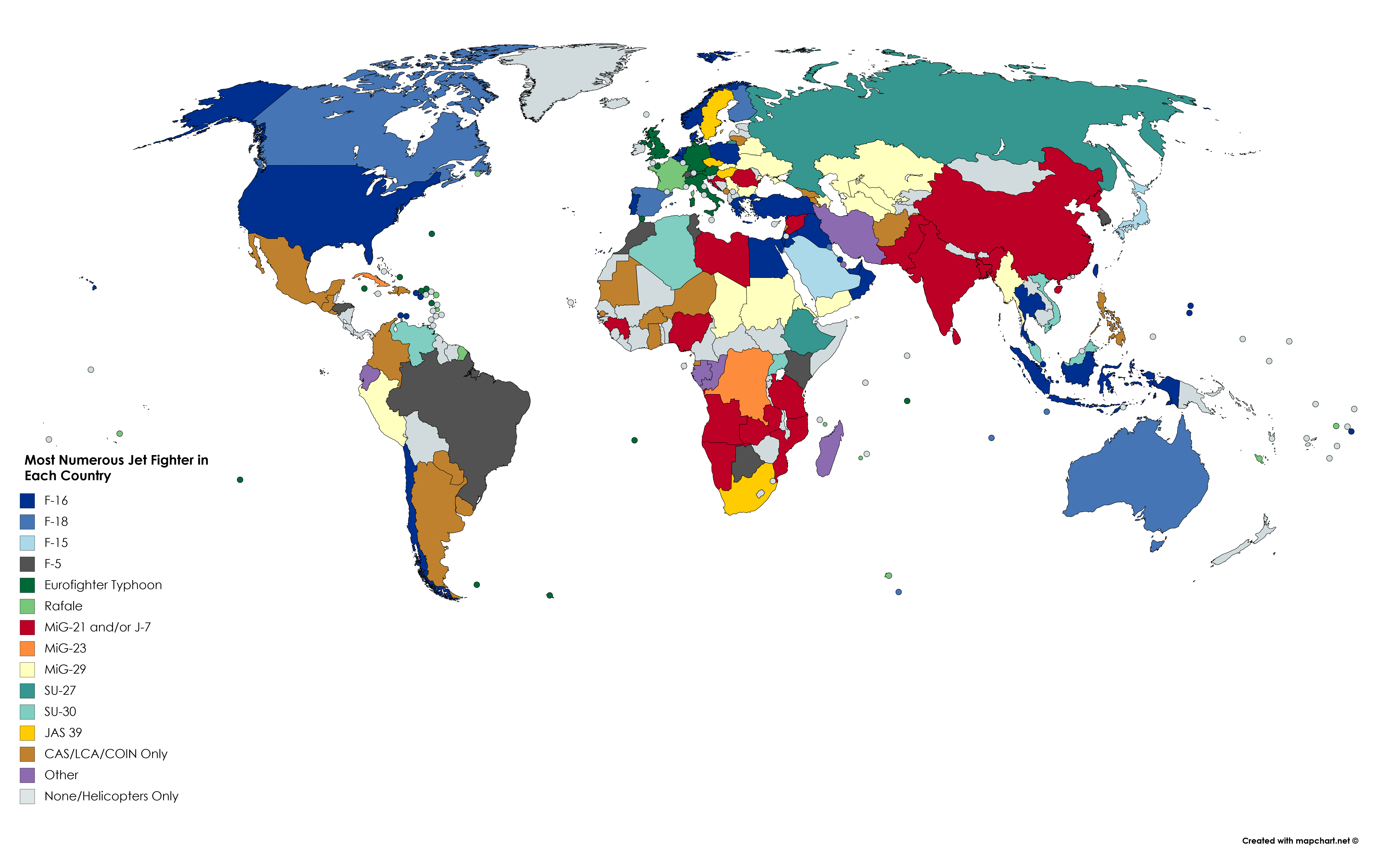 Most numerous fighter jet in each country